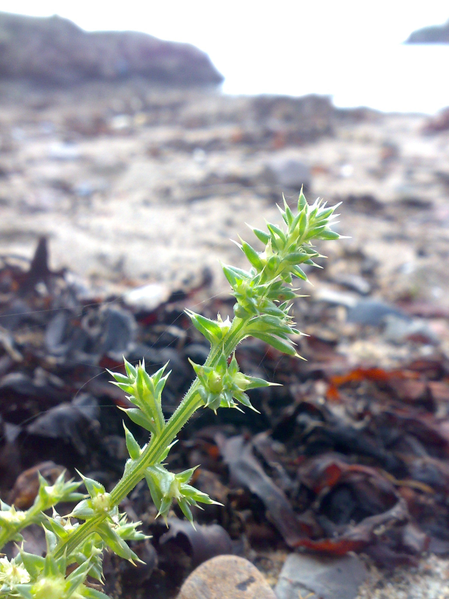 Kali turgida (Dumort.) Guterm., (Syn. Salsola kali L.) (sodaurt) in Ersvika, Hurum, Norway